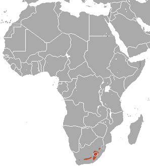 Sclater's Golden Mole (Chlorotalpa sclateri) range